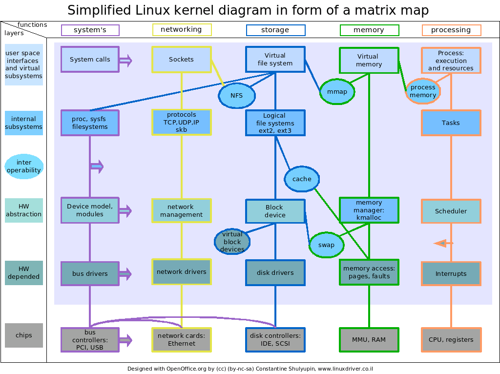 Linux kernel architecture Comments are welcome!